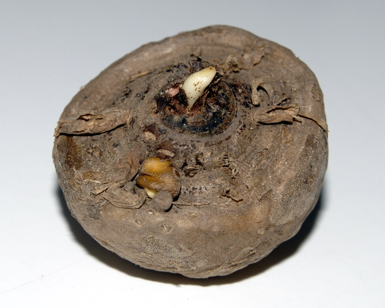 Pycnospatha arietina tuber